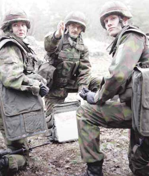 Finnish reservists in a training exercise. The reservist on the left is female. The captain in the middle can be recognized as a reservists because he wears a beard, which is not allowed for career military personnel.